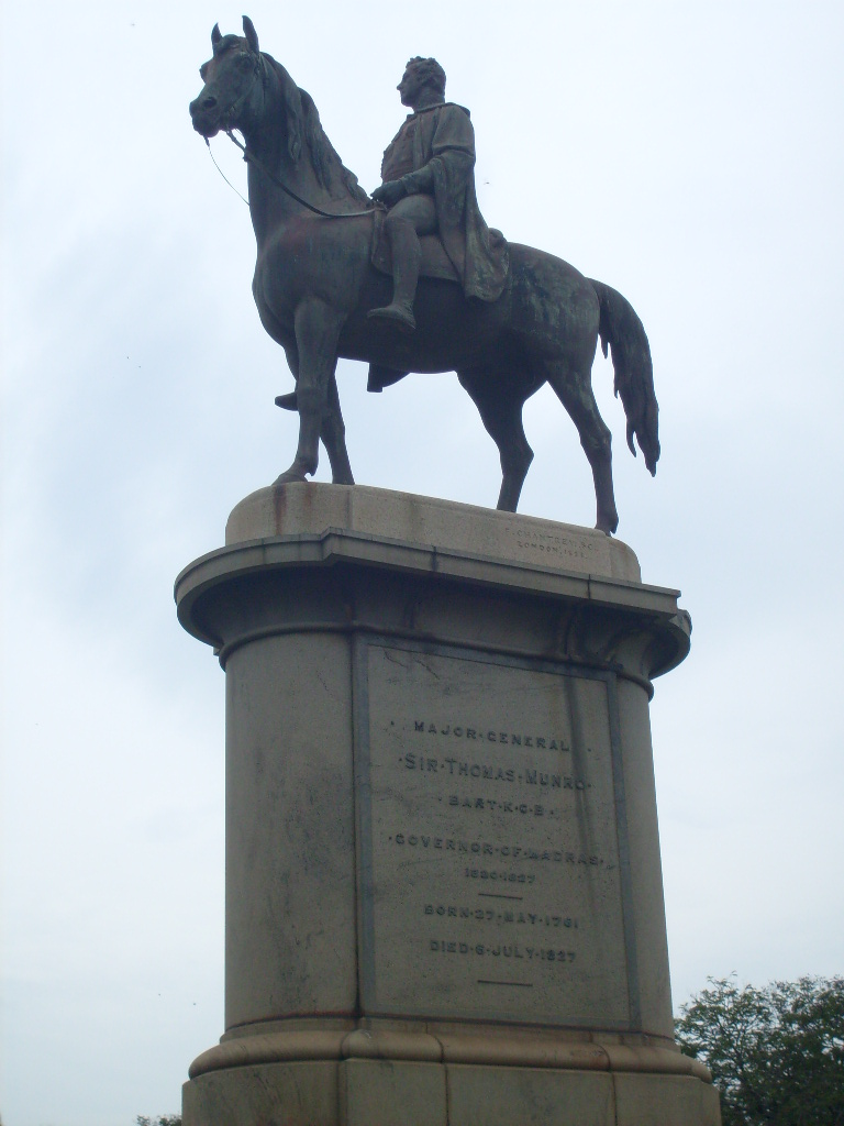 Equestrian statue of Thomas Munro, 1st baronet at The Island, Chennai. The statue is known as "His Stirrupless Majesty" and is a popular icon in Chennai city.